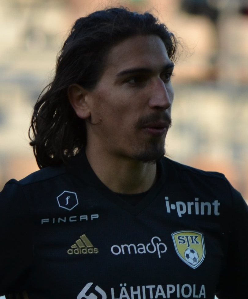 Football player Facundo Guichón